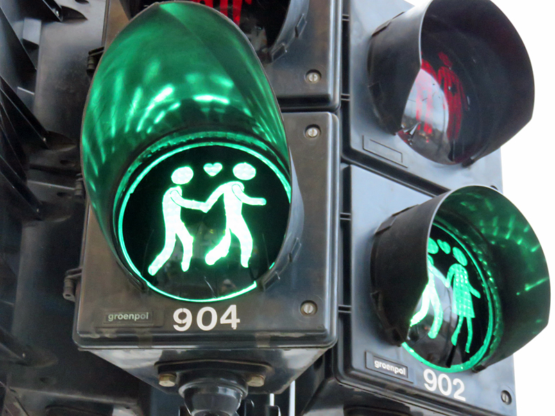 Traffic light with a same-sex male couple during the EuroPride in Amsterdam, July 2016